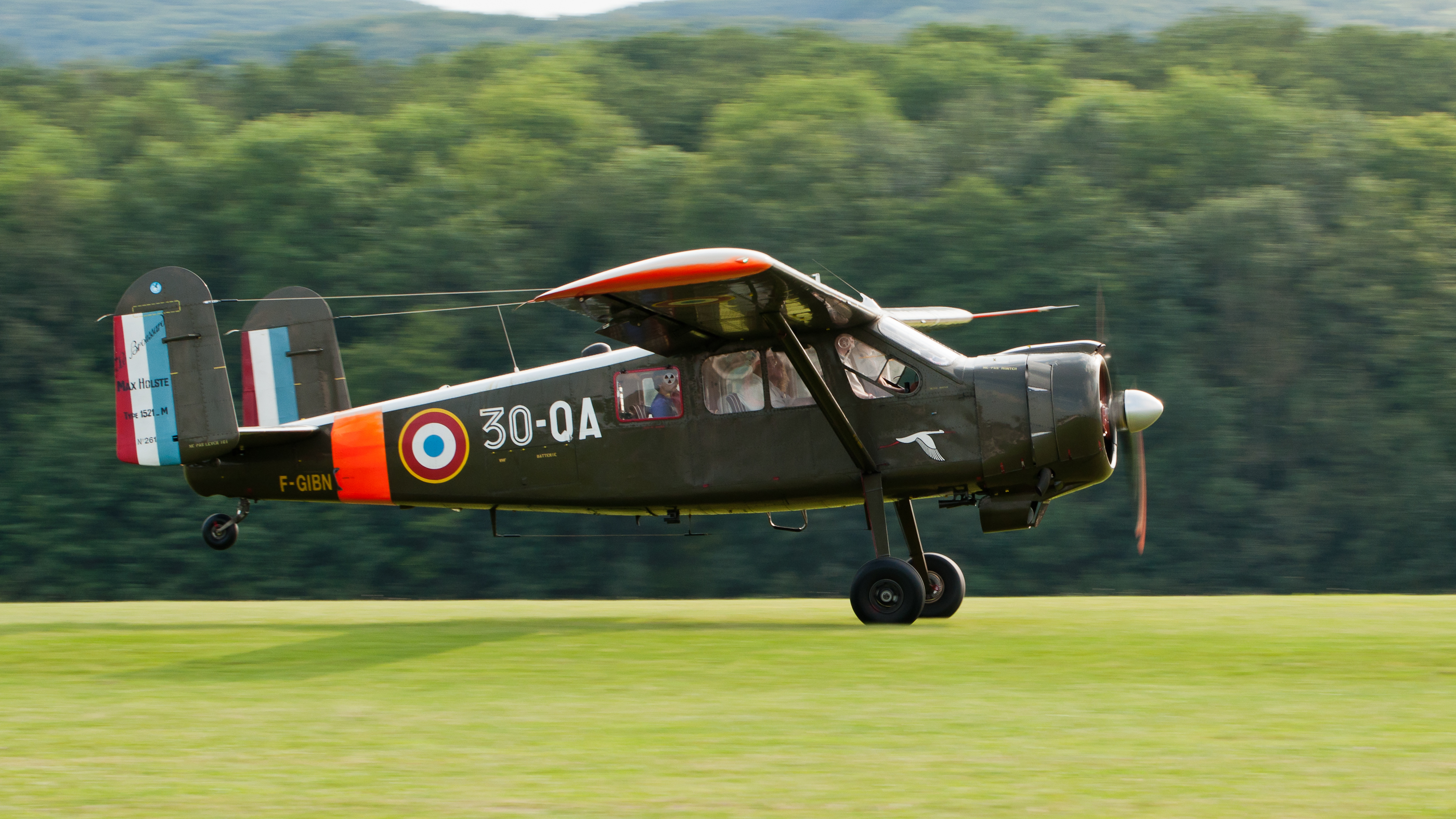 Max Holste MH-1521M Broussard (reg. F-GIBN (30-QA), cn 261, built in 1960). Engine: PW R981-AN14.